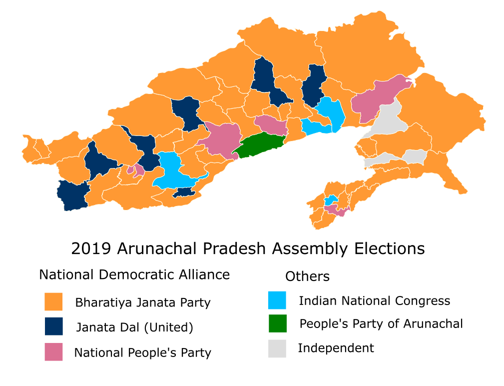 Map showing constituencies won by parties